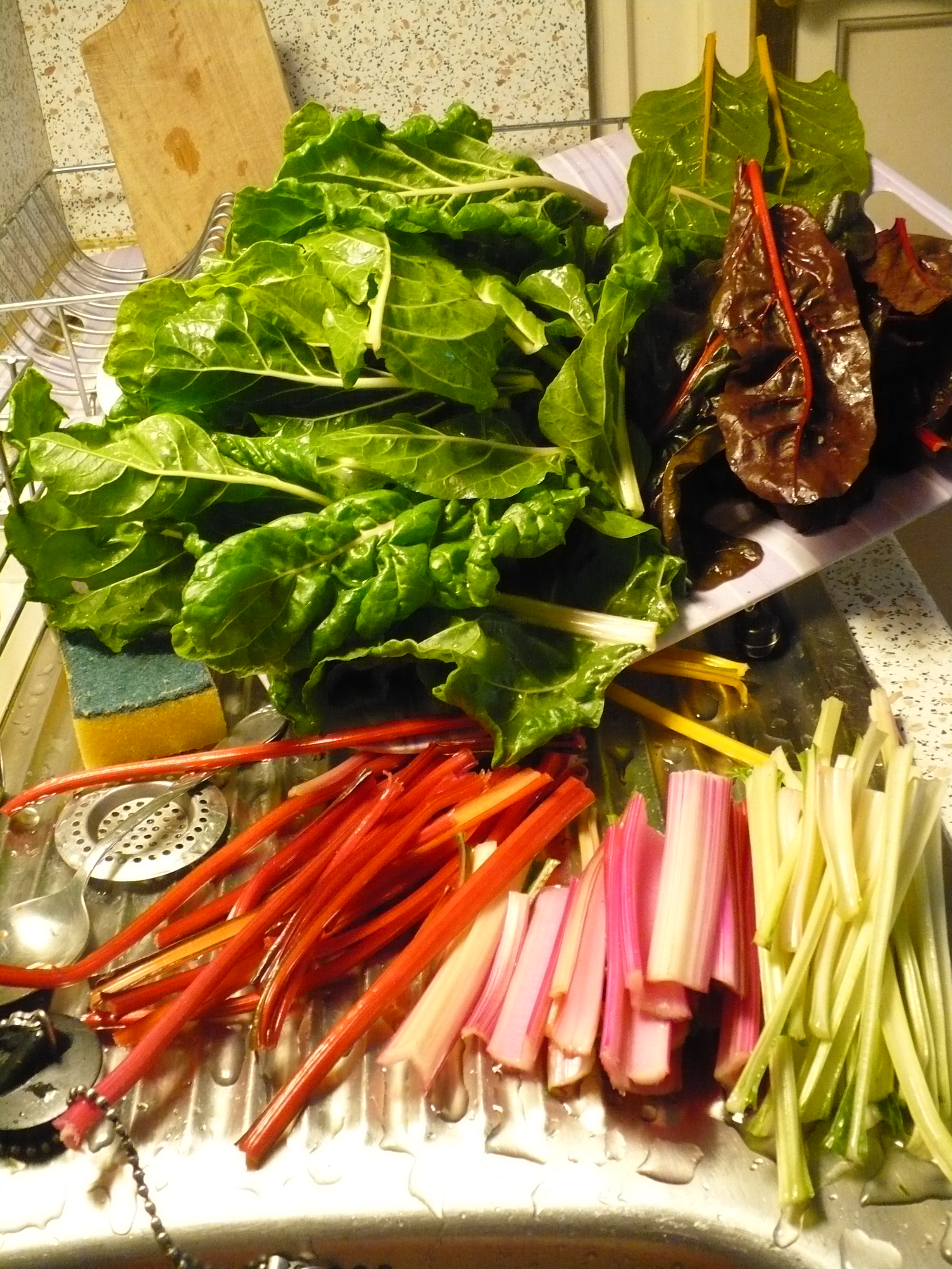 Chard leaves and stems